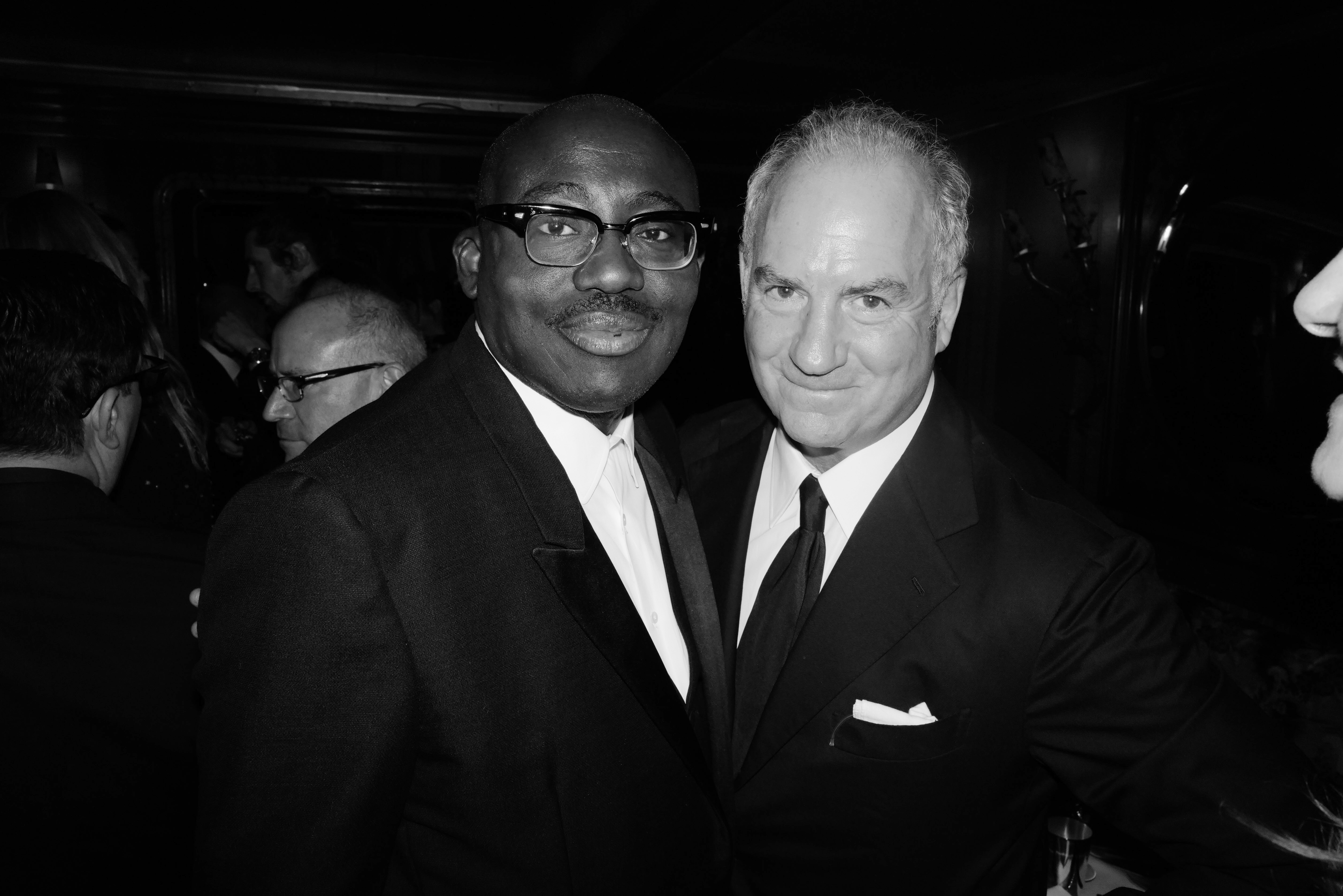 Charles Finch x Chanel Pre BAFTA Dinner